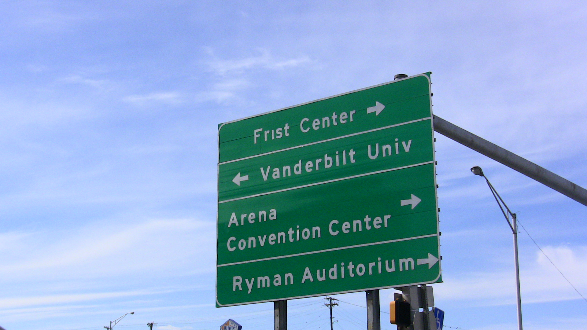 This is a sign listing quite a few destinations that are off of Exits 209, 209A, and 209B in Nashville, Tennessee, close to but not quite in downtown. This picture was taken from 13th Avenue South, which is adjacent to the freeway and associated ramps.